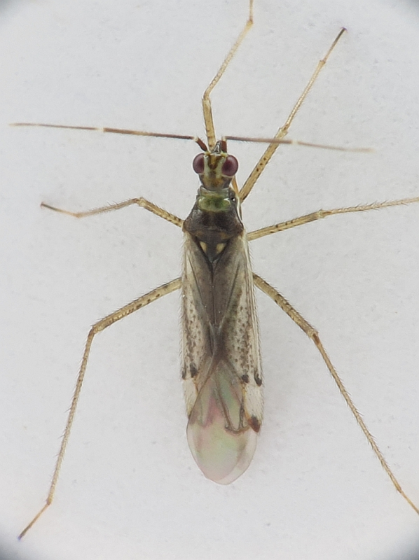 20171016 Dicyphus epilobii male Lohja Finland Petro Pynnönen